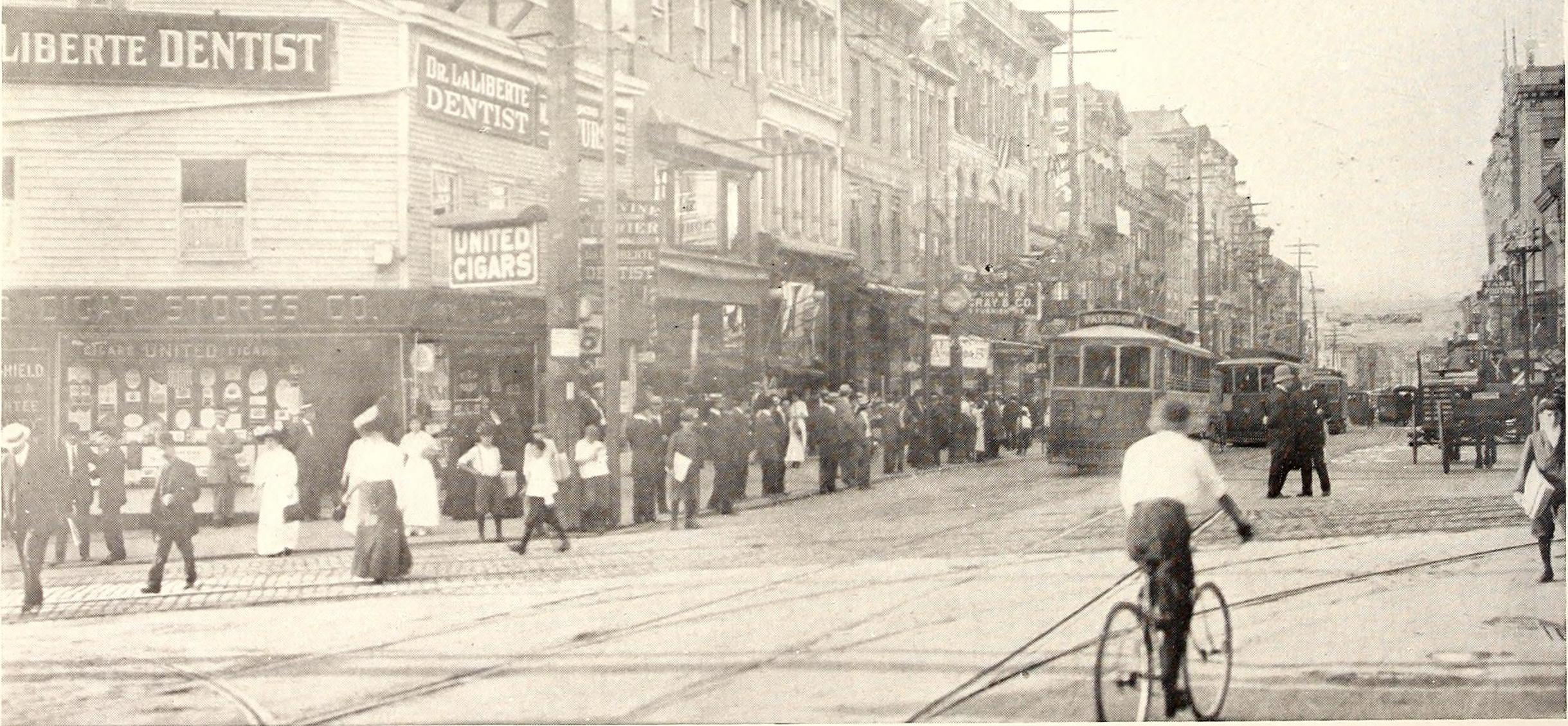 Title: Electric railway journal Year: 1908 (1900s) Authors: Subjects: Electric railroads Publisher: (New York) McGraw Hill Pub. Co Text Appearing Before Image: One of the Hudson River Ferry Boats Operated by theCompany Scene on Maplewood Line, Showing Orange Mountainin the Distance Plate X Text Appearing After Image: Part of the Central Business District of Paterson, Showing Intersection of Market and Main Streets, the Point of Heaviest Traffic Movement in That City Plate XI